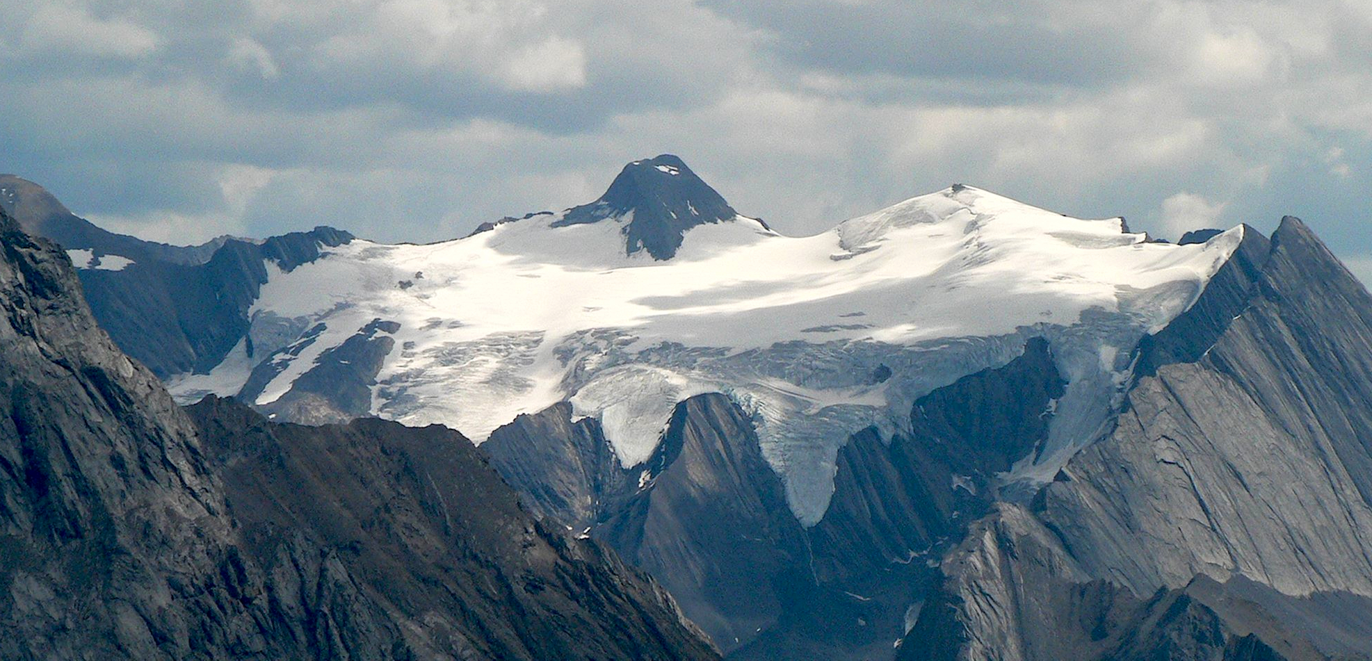 Maligne Mountain with Maligne Glacier. Jasper National Park, Canada. Seen from Bald Hills.